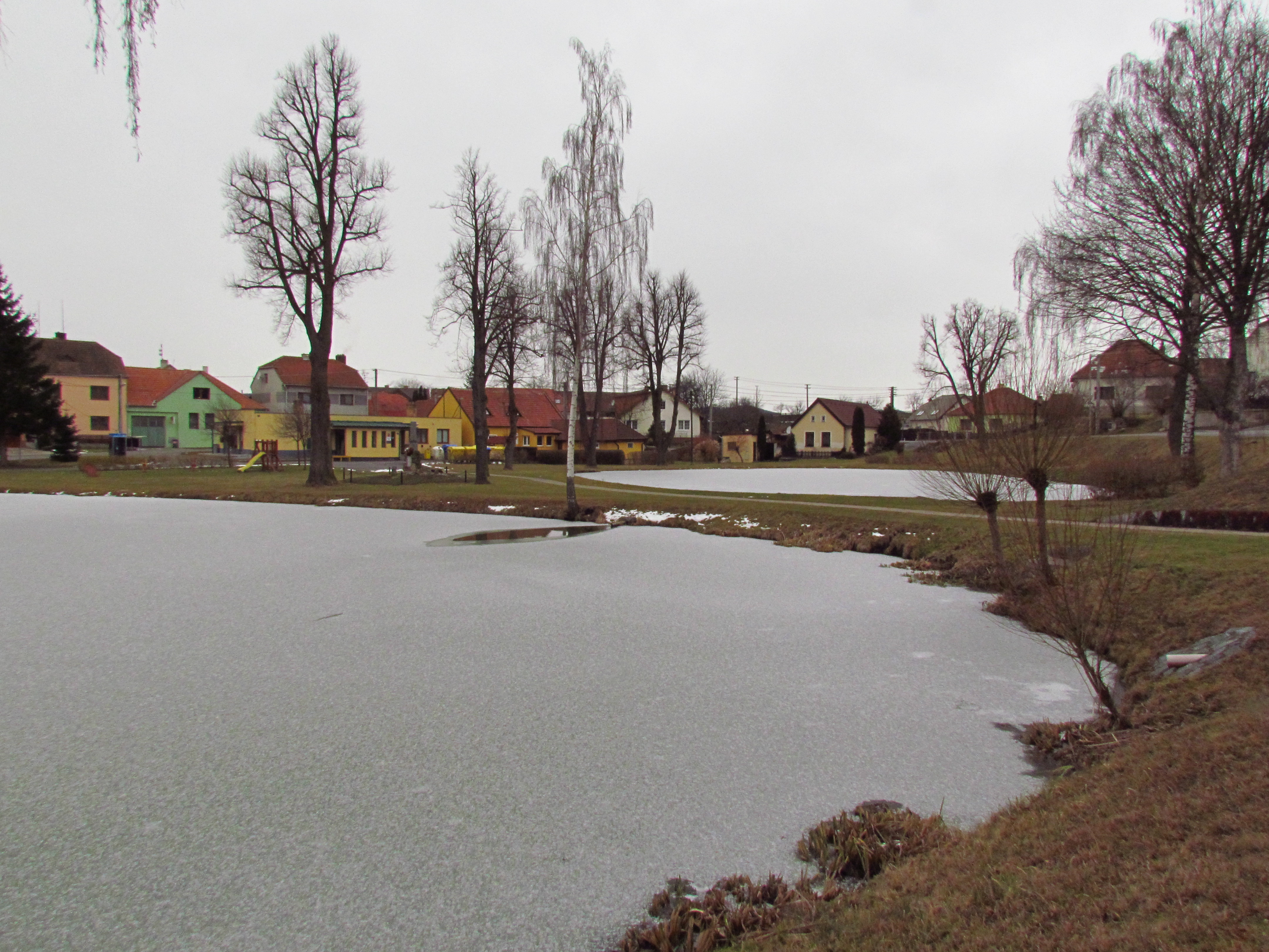 Center with ponds of Nová Ves, Třebíč District.